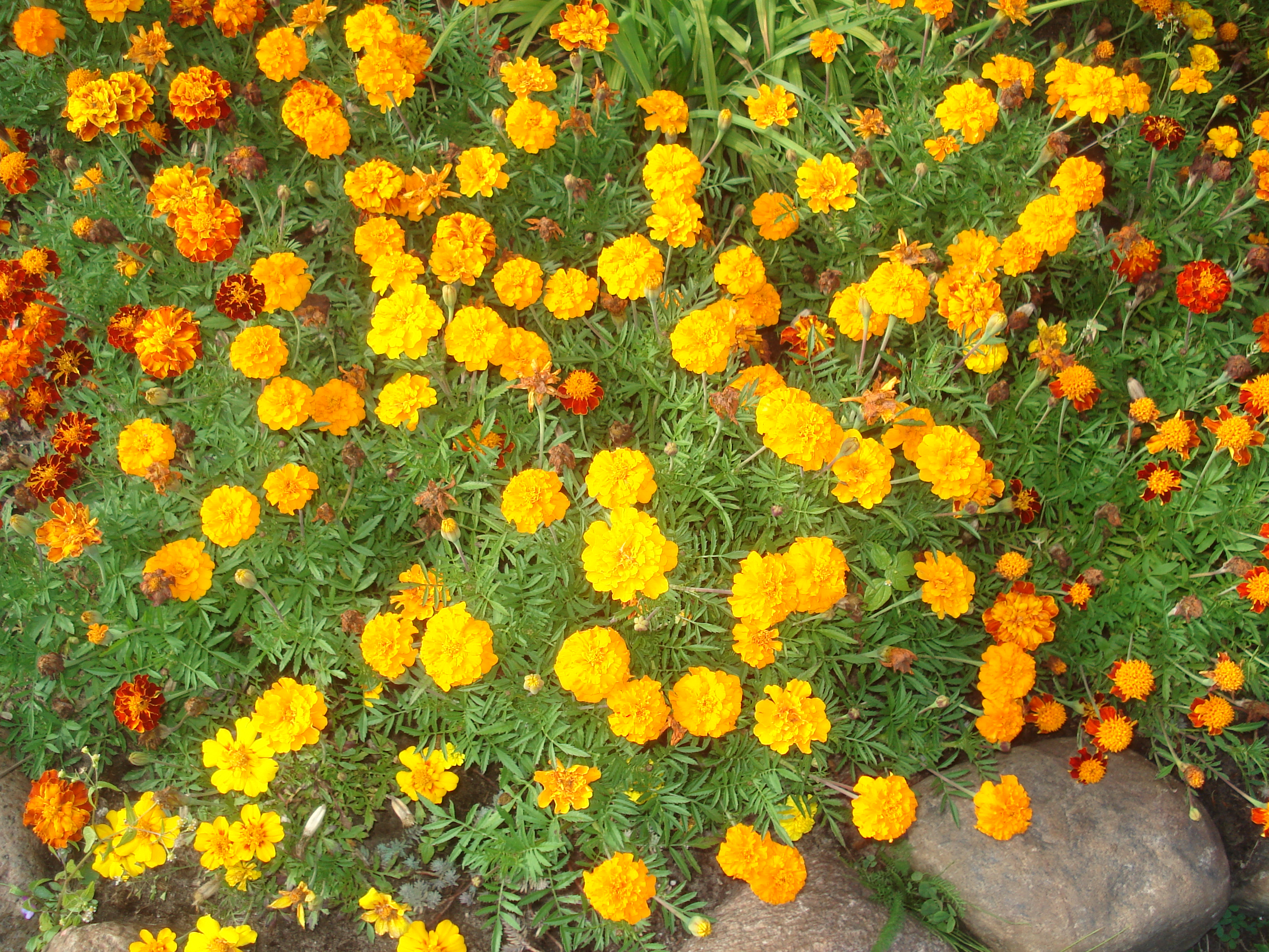 Mexican marigold (Tagetes erecta). Found in Kauguri near Riga town, Latvia